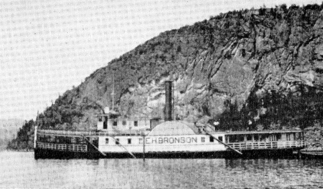 The steamboat E. H. Bronson passing Oiseau Rock. The steamboat was built in 1895 and was at the Pembroke-Des Joachims run, with Capt. Tom Dunbar at the helm. Passengers was allowed to operate the whistle to hear the sound echo off the rock face. Photo Source: The Upper Ottawa Valley - A Glimpse of History, page 31. The Steamboat E.H. Bronson was named after Erskine Bronson (Bronson Avenue in downtown Ottawa)